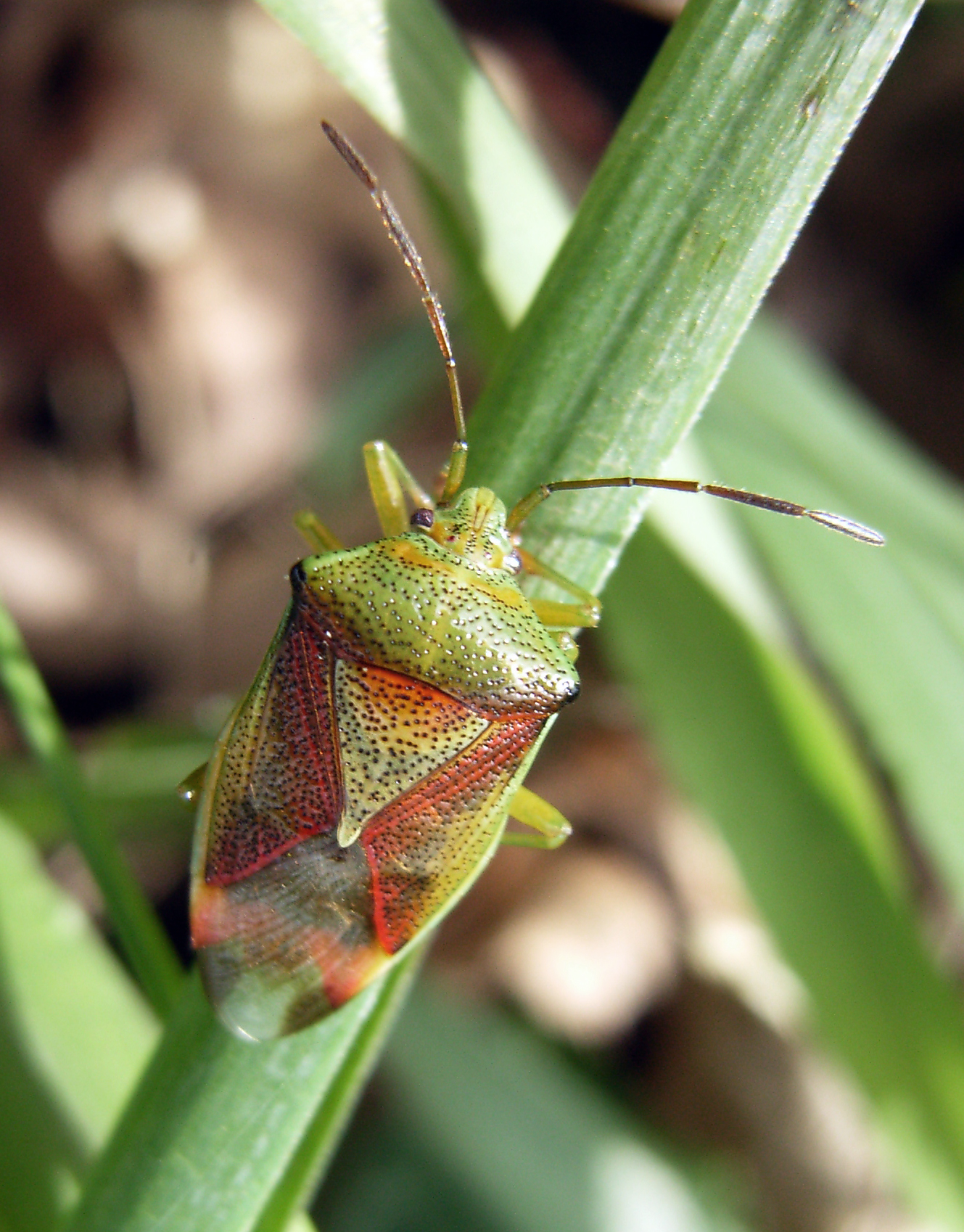 Elasmostethus interstinctus (Acanthosomatidae), Lower Saxony (Germany)